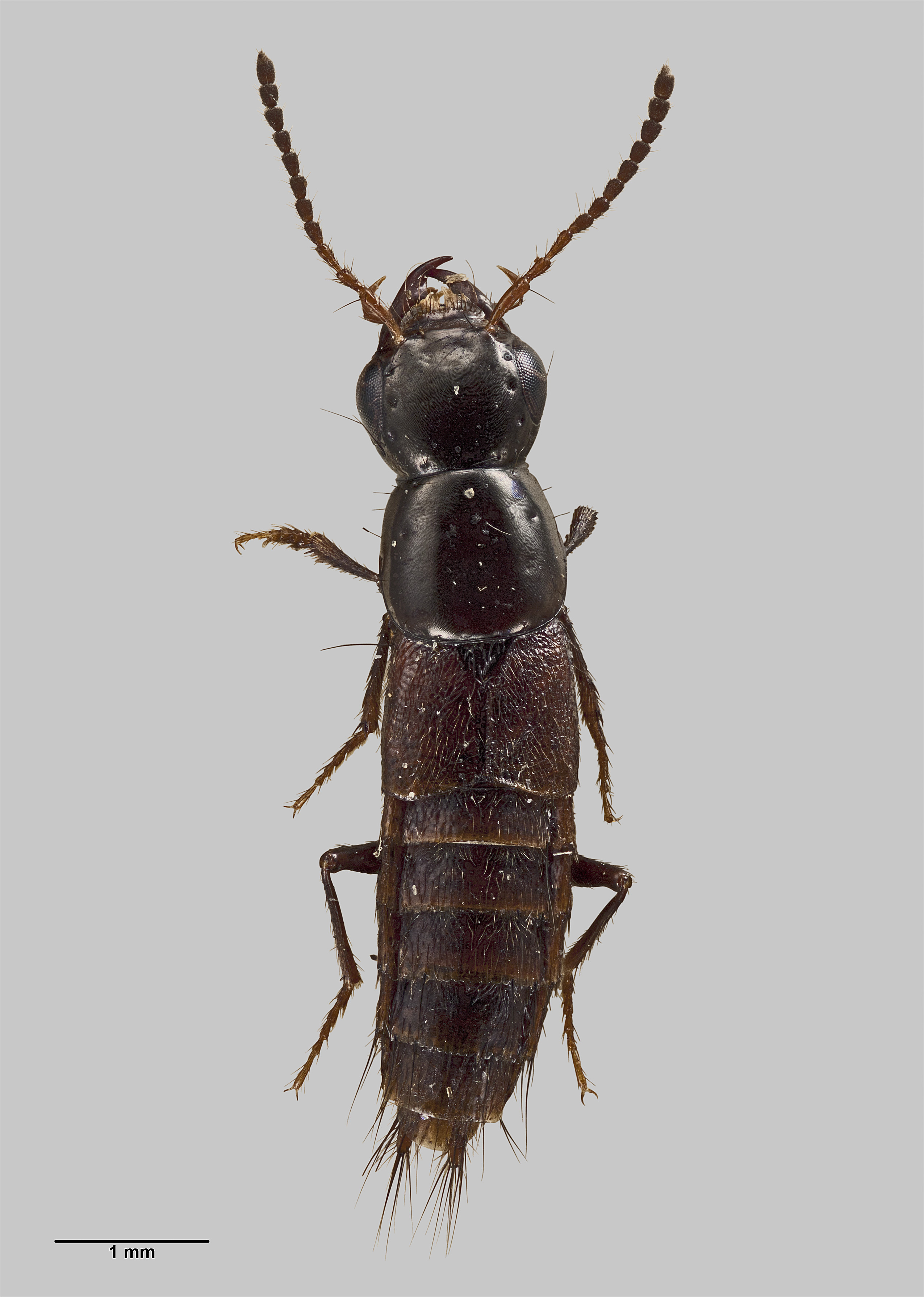 Holotype specimen of Quedius subapterus AMNZ21843 held at the Auckland War Memorial Museum.